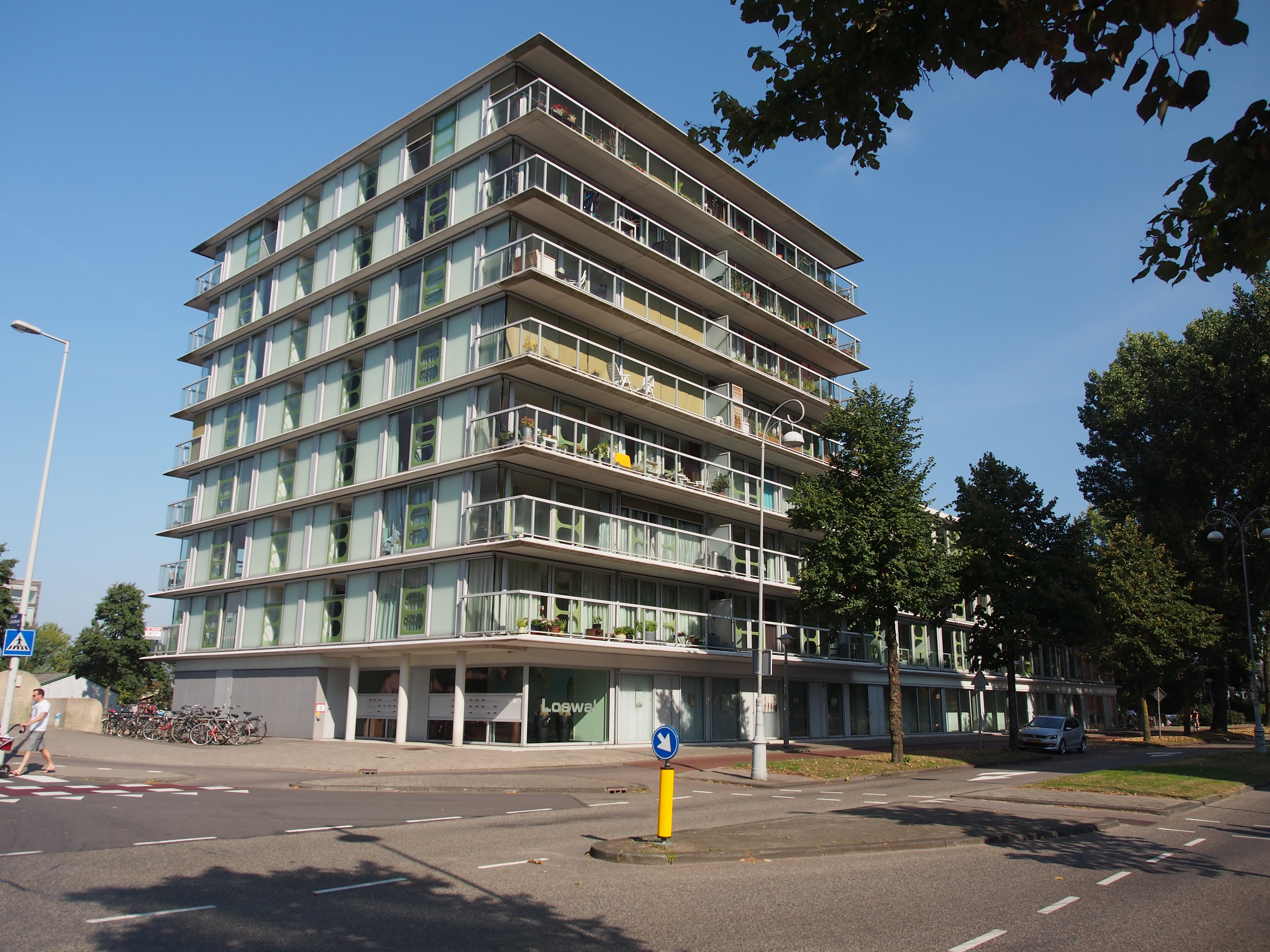 Photographed in Amsterdam.